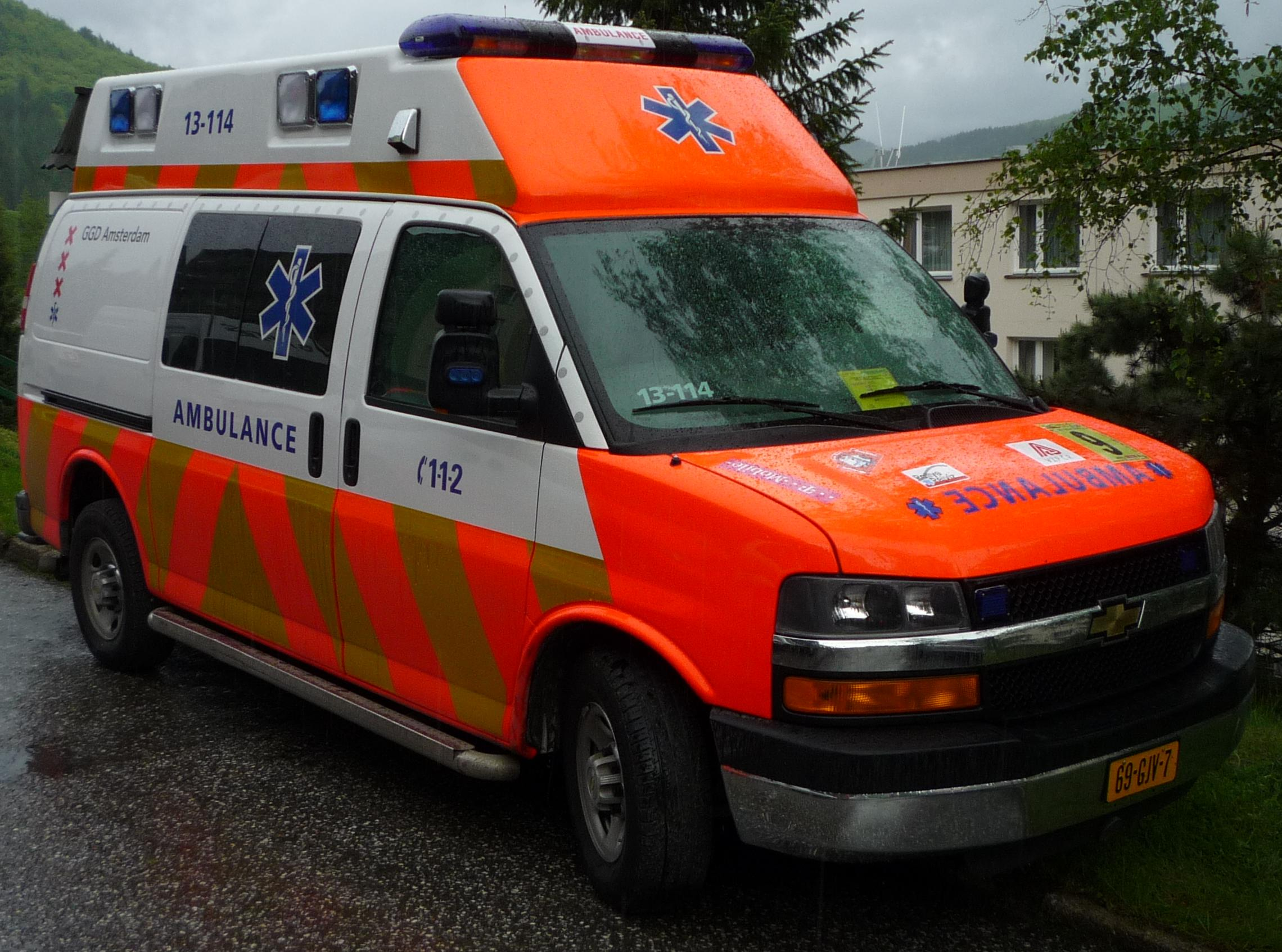 Emergency Medical Service